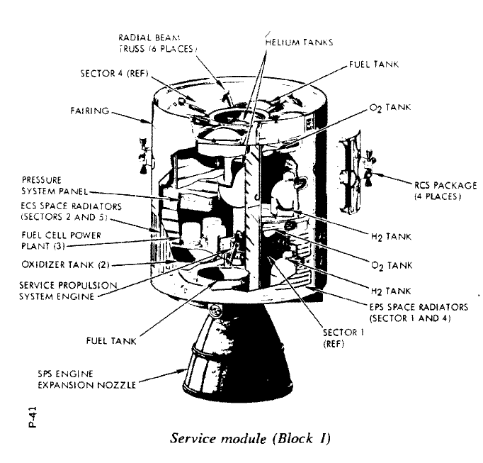 Apollo Block I Service Module interior arrangement